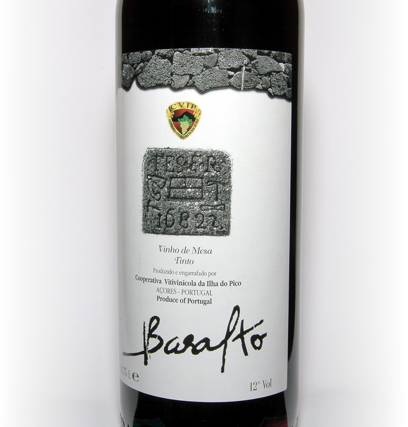 Red wine from UNESCO World Heritage Site at Pico in Azores